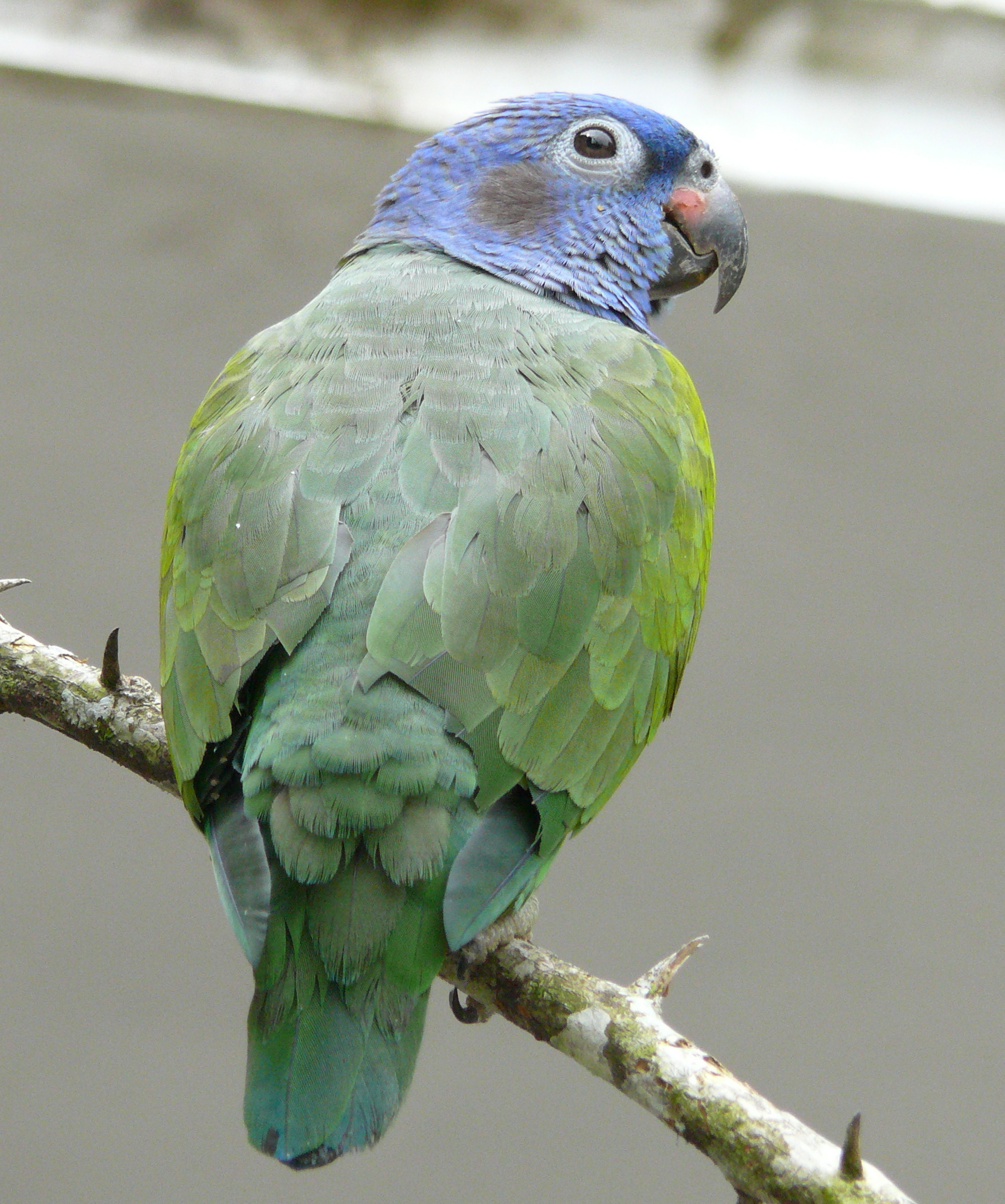 Blue-headed Parrot (Pionus menstruus)